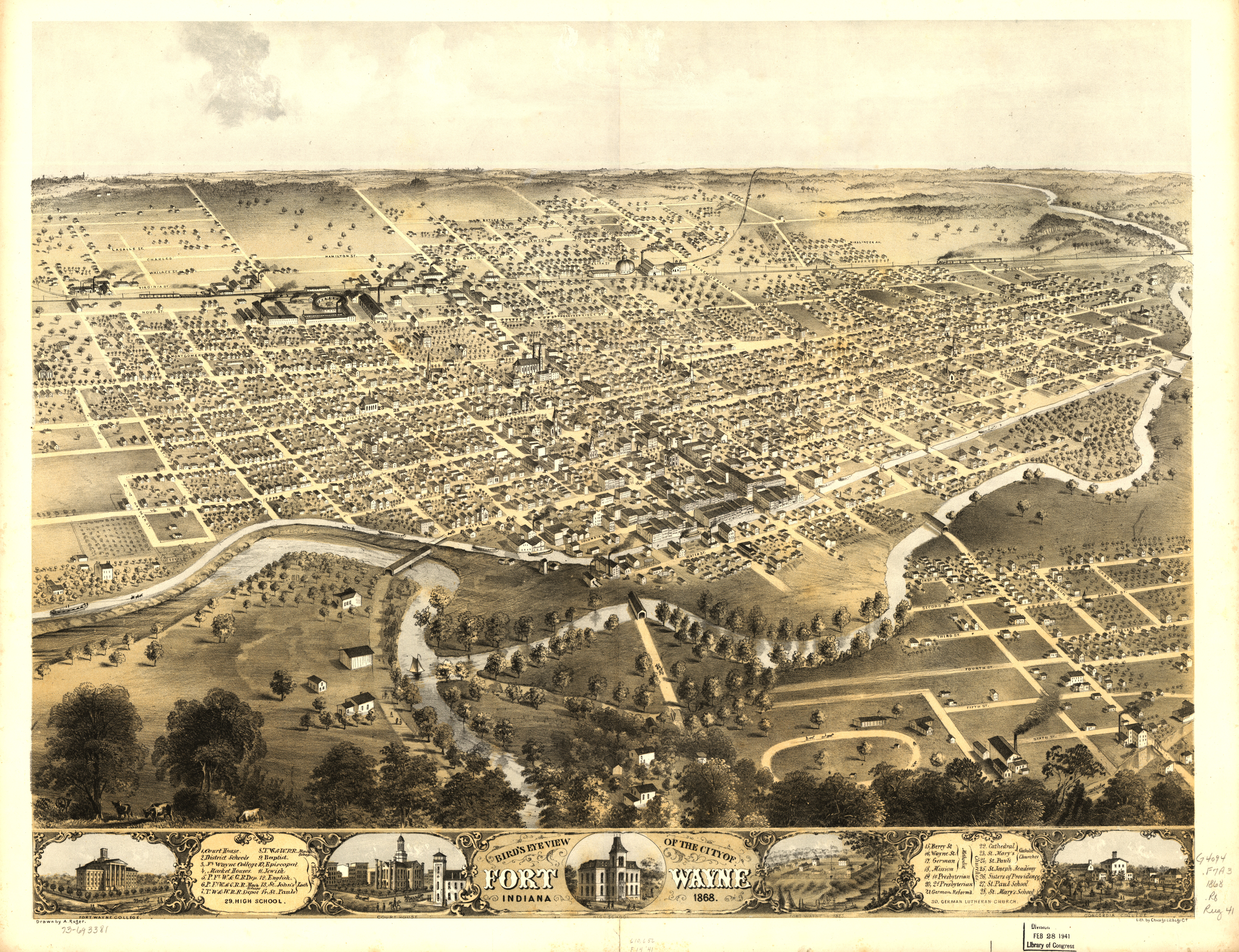 Bird's eye view of the city of Fort Wayne, Indiana 1868.